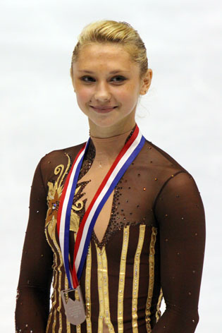 Ksenia Makarova on the podium at the 2009-2010 Junior Grand Prix Lake Placid